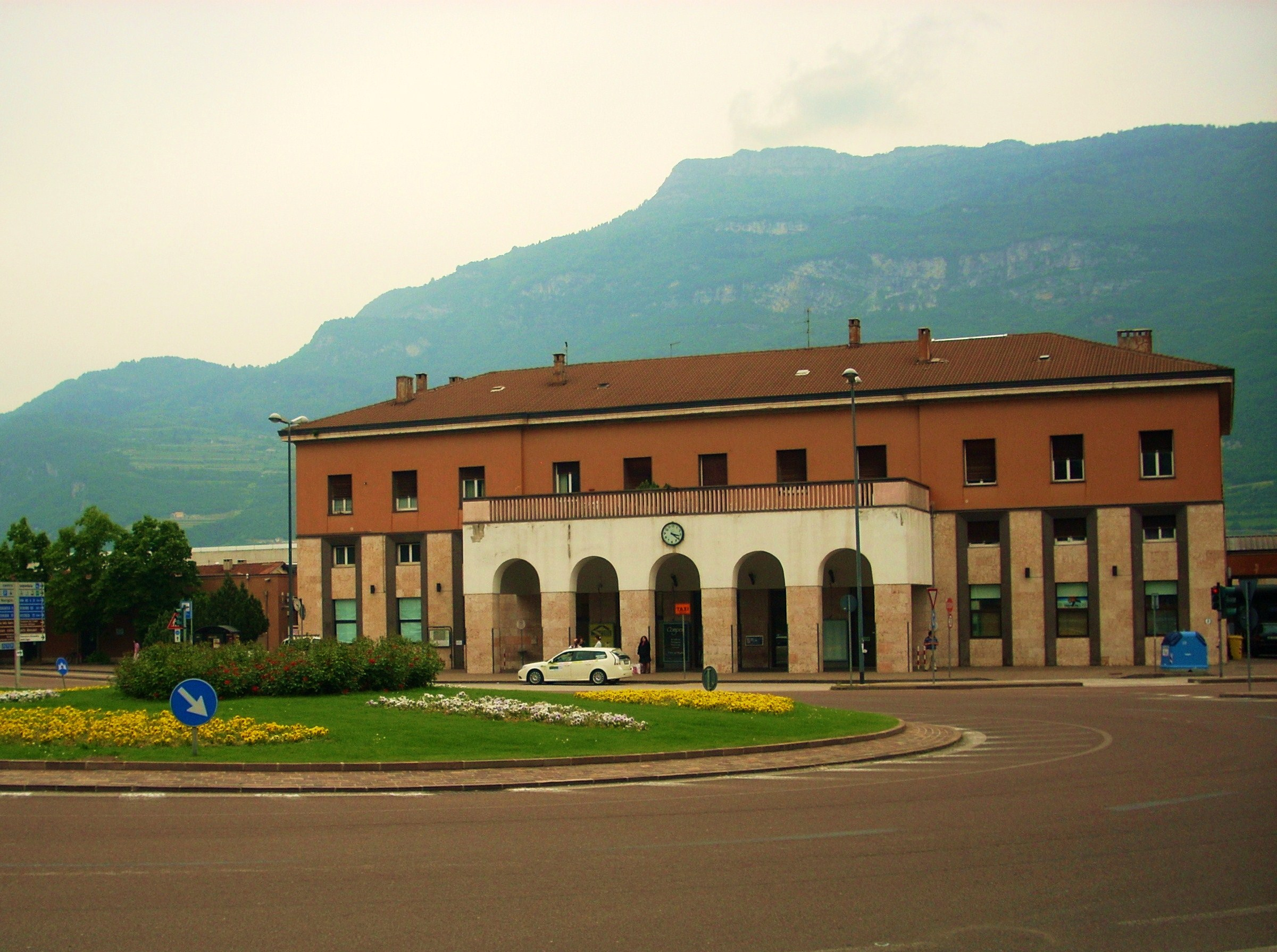 Rail station of Rovereto, in Paolo Orsi square